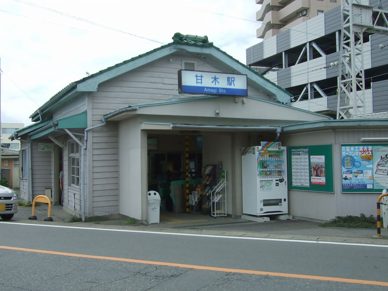 Nishitetsu Amagi Station, Nishitetsu Amagi Line.